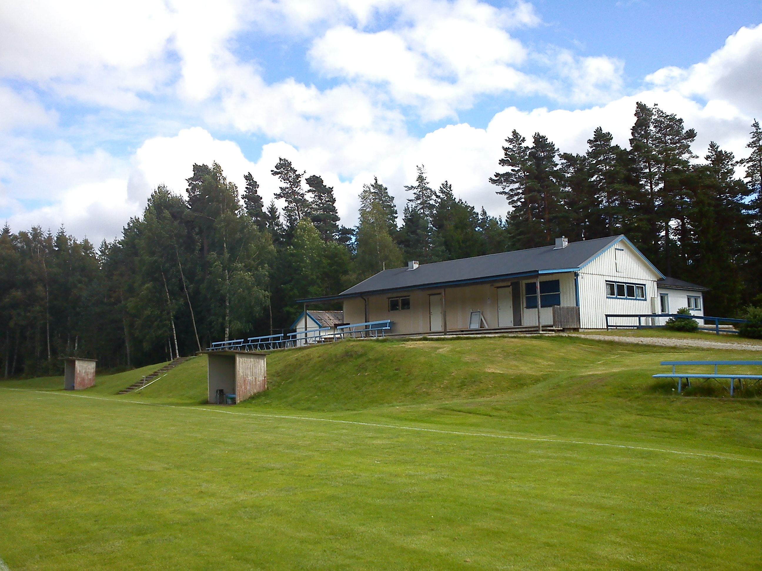 Lane arena in Lane-Ryr outside Uddevalla (Sweden). Home arena for the youth section of the club IFK Lane.